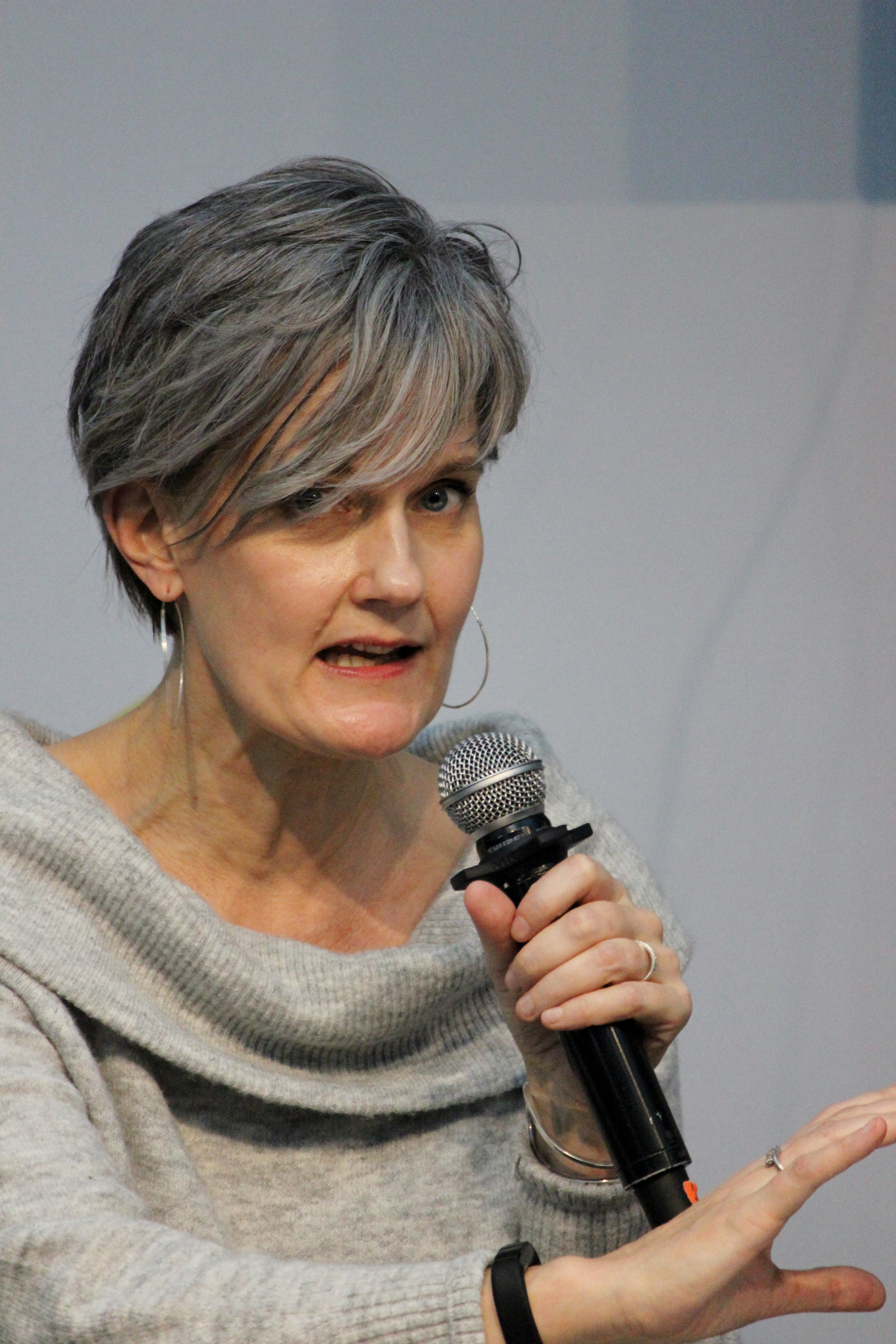 Finish writer Tove Appelgren (writes in Swedish) at the 21 Moscow International Fair Non/fiction 2019